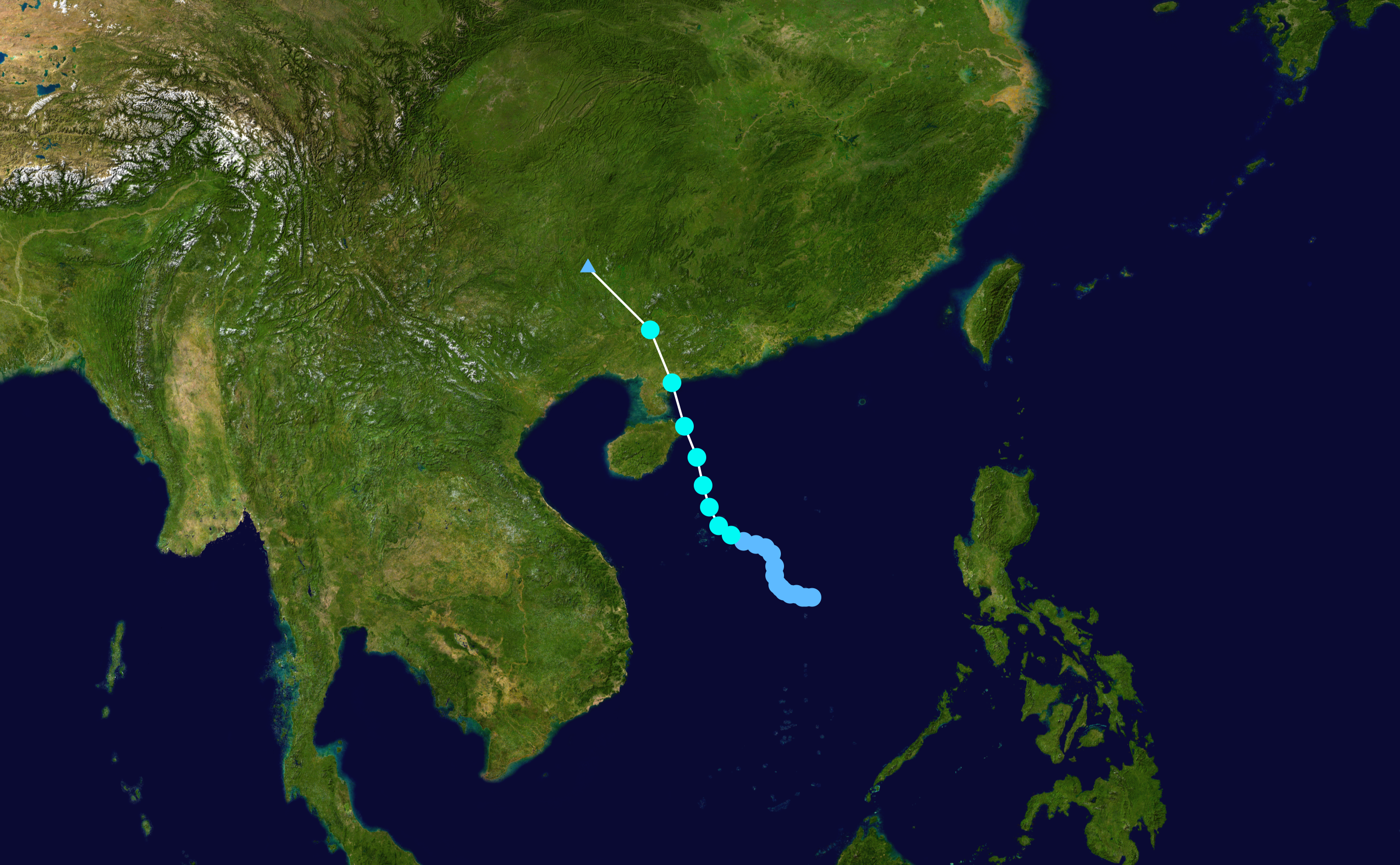 Tropical Storm Vongfong 2002 track. Uses the color scheme from the Saffir-Simpson Hurricane Scale.